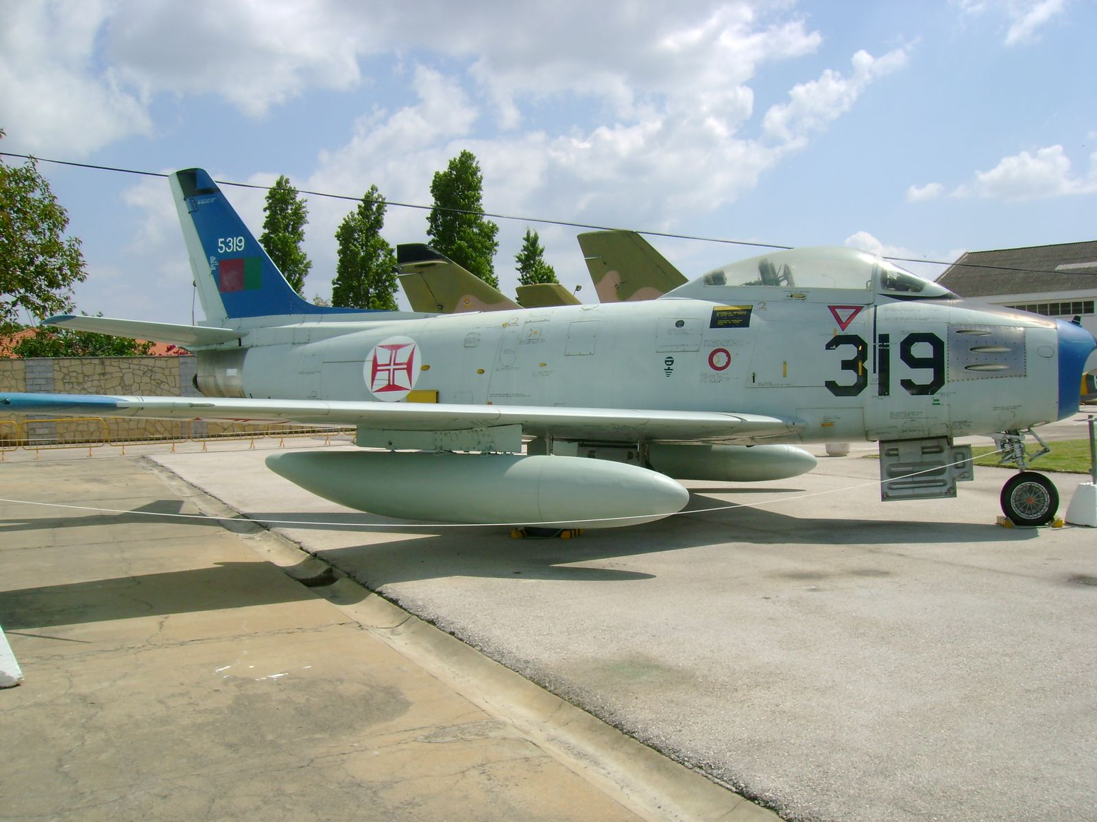 F-86F (5319) at the PoAF museum.